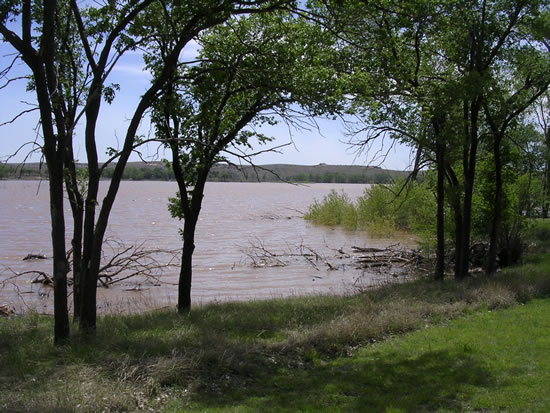 The man-made impoundment on McClellan Creek created a water based recreation area in the often high and dry Texas Panhandle. Stock and wildlife water is now available without the windmill that was previously so important to the plains. McClellan Creek National Grassland.